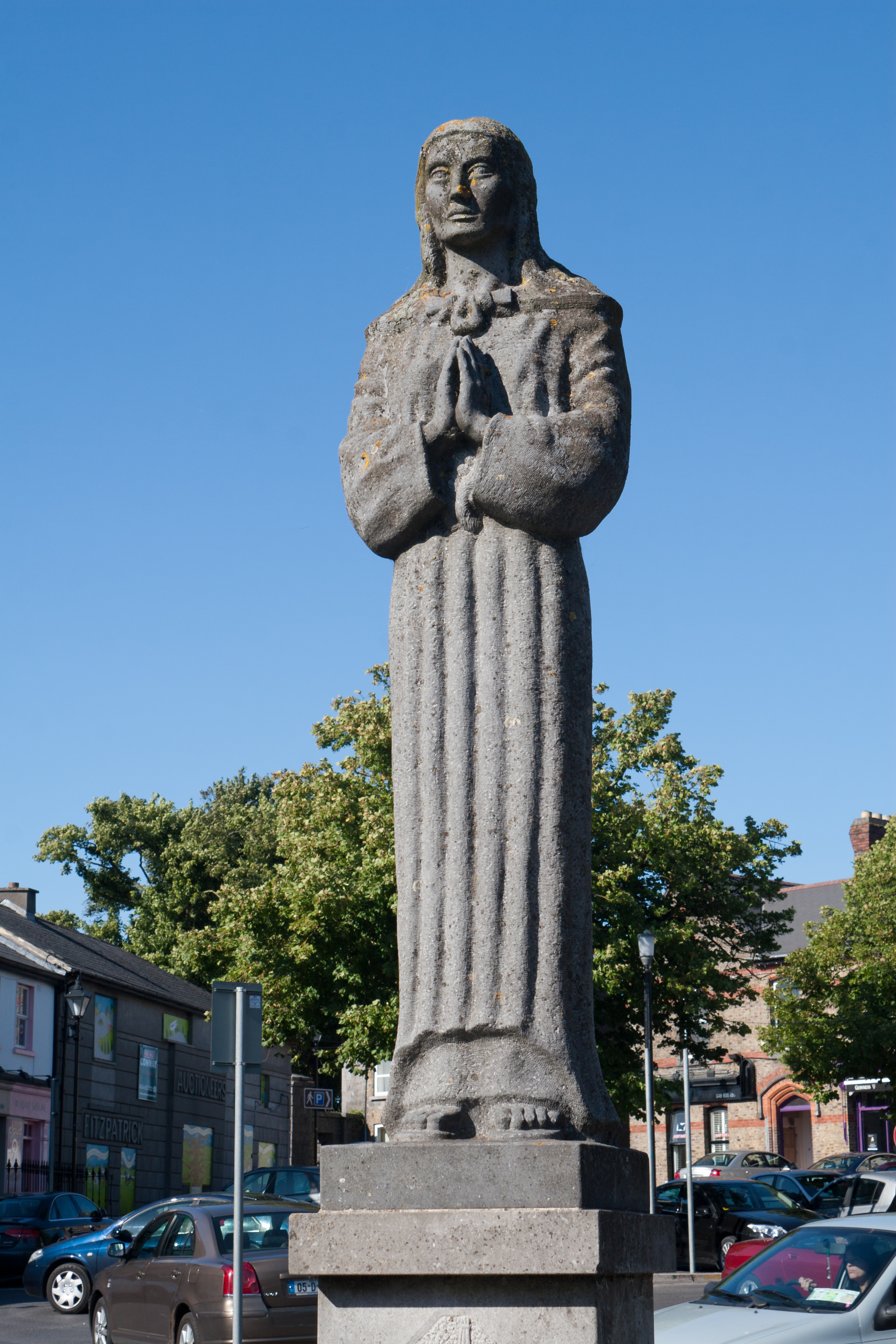 Statue of St. Brigid at the Market Square in Kildare, dedicated to the victims of the Gibbet Rath massacre. Inscription: In memory of over 350 men from Kildare and district who gave their lives at Gibbet Rath 28 May 1798. This statue was financed by the Gibbet Rath Memorial Fund which collected donations since at least 1950 (according to a report in the Leinster Leader on 12 August 1950 about the St. Brigid Statue Project). The statue was unveiled in 1973 and erected at the Market Square in 1976. (See Newspaper Archive of the Grey Abbey Restoration Project in Kildare.)